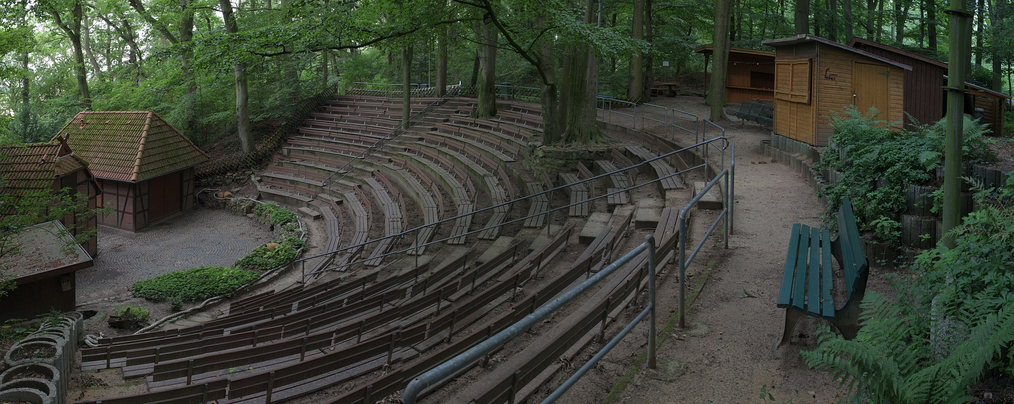 Waldbühne Daverden (open-air theater in the forest) near Verden, Germany.